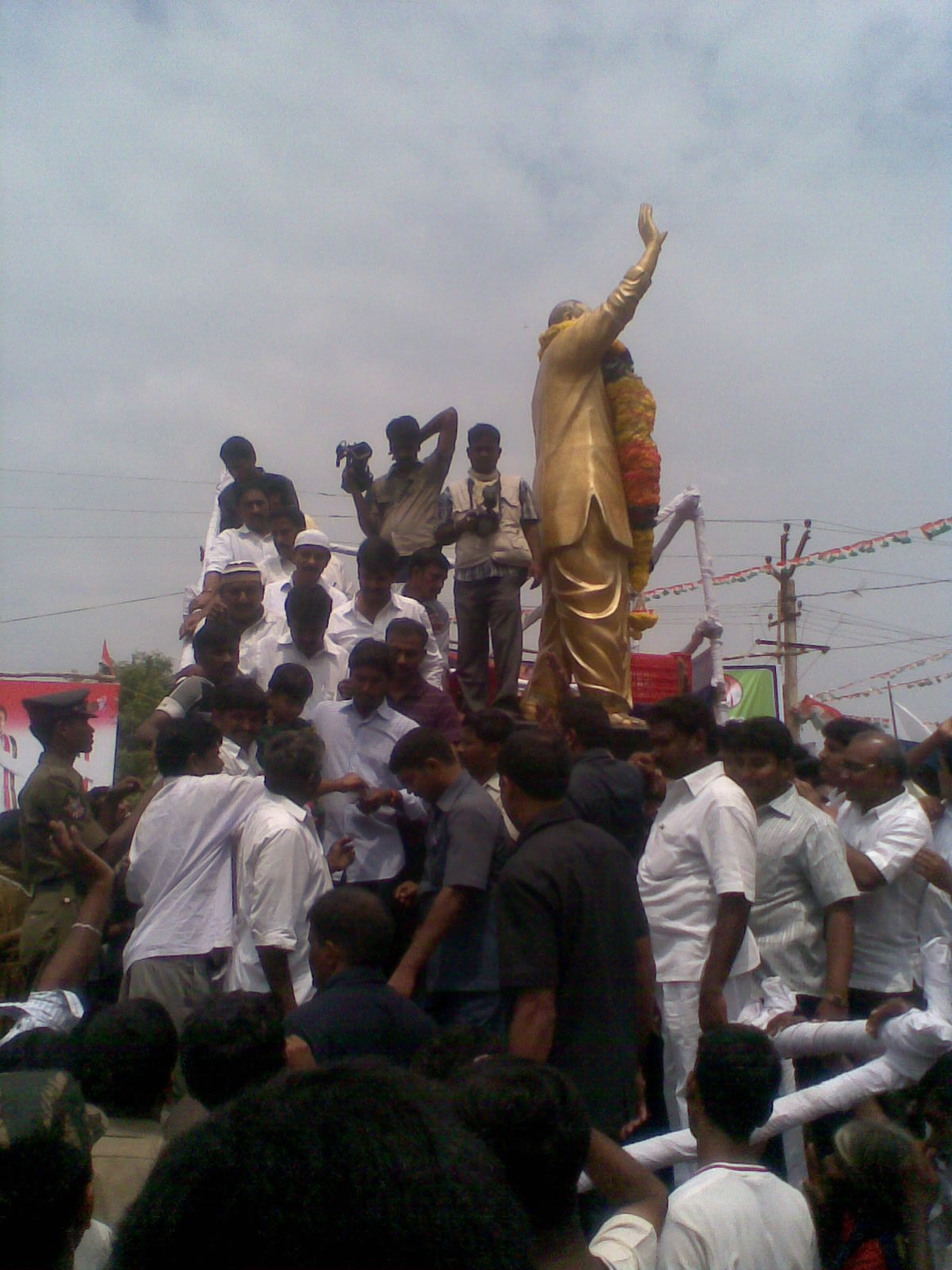 Y.S.JAGAN at Vinjamur